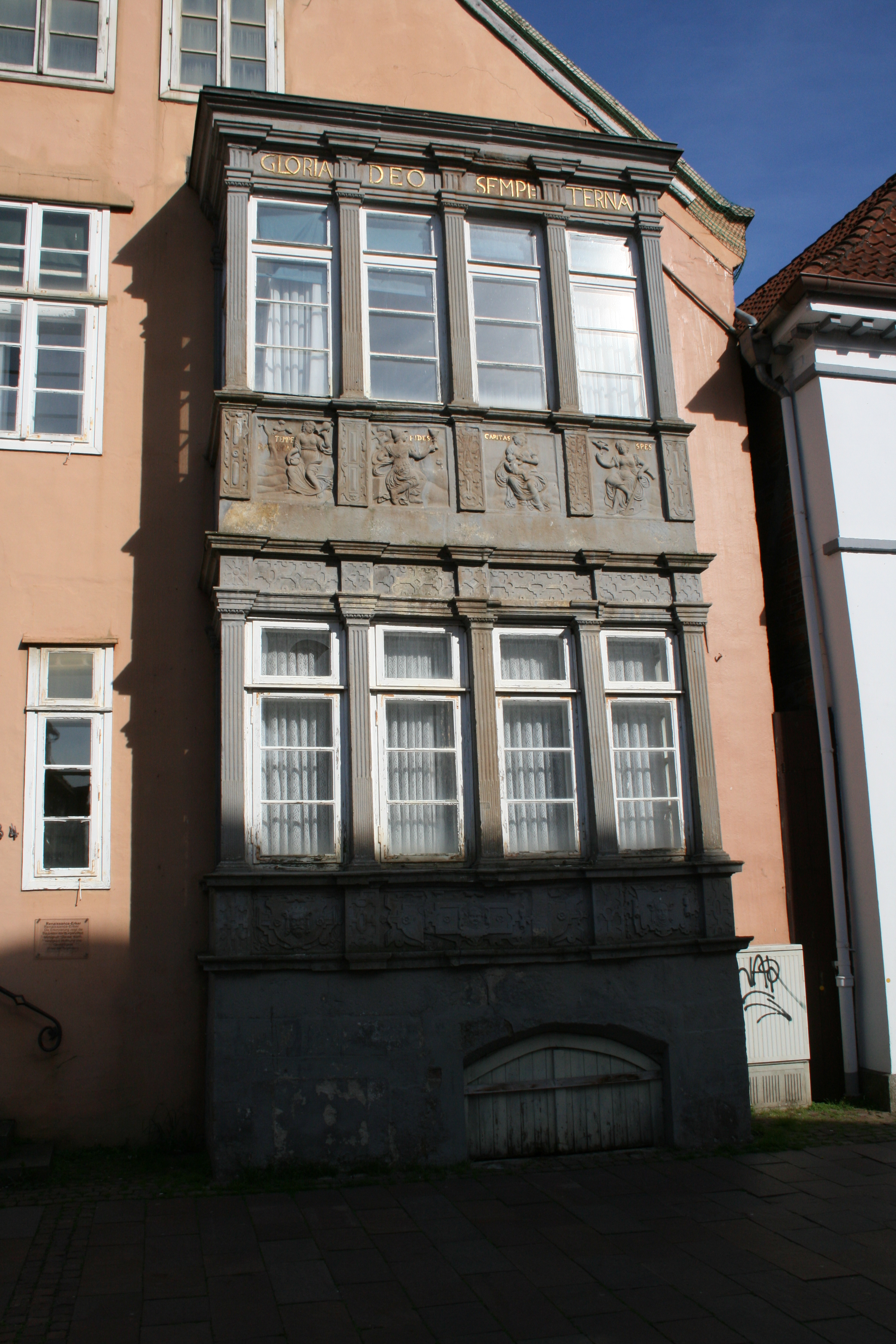 Nienburg, Lange Straße 34